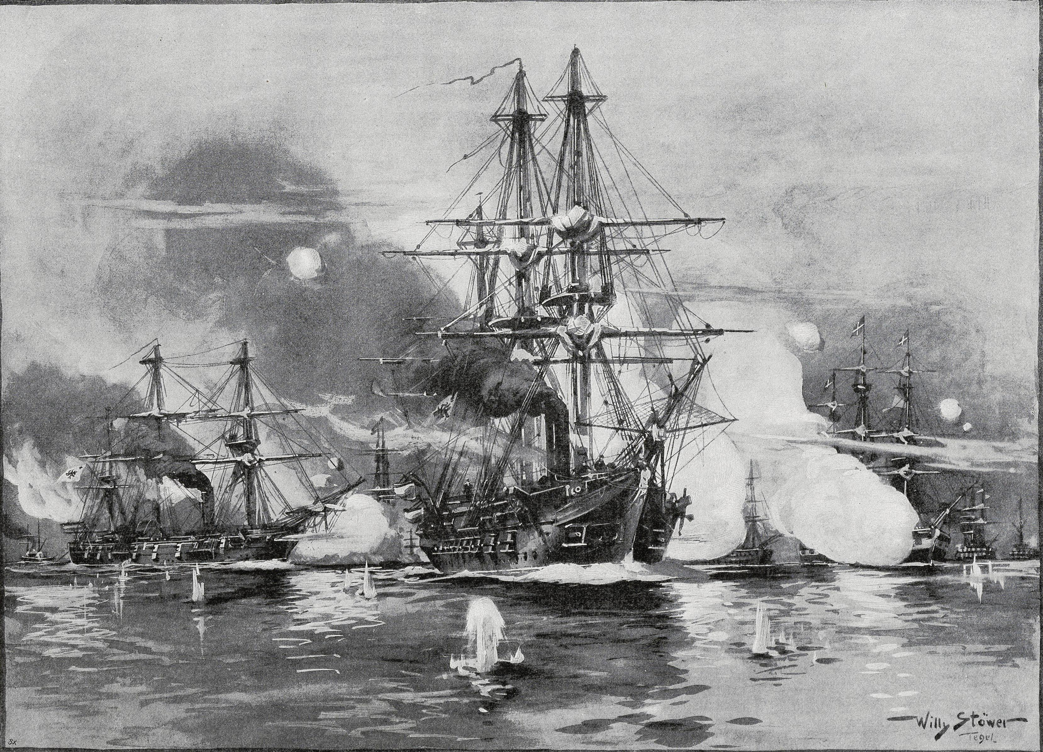 Moderne Kunst had this picture as part of its series Unsere Bilder accompanied by some history about the battle of Jasmund and the Prussian Navy.